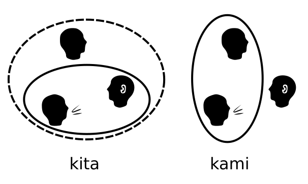 Source: File:Inclusive-exclusive.jpg